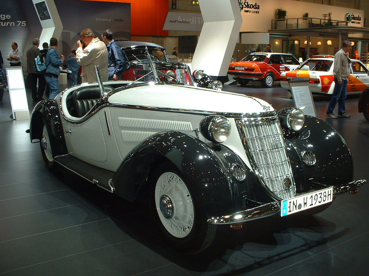 Lovely 1930s 4-ringed open tourer at Techno Classica Essen in 2007.